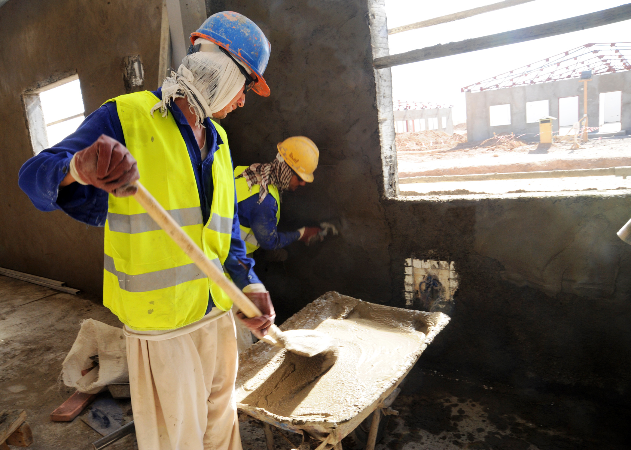 Afghan contractors mix and apply concrete to the walls of a structure at Shindand Air Base in Herat Province, Afghanistan, Sept. 4, 2011. When completed, the structure is slated to be a dining facility capable of seating 600 Afghan Air Force members and staff. The project is a small portion of a large-scale construction effort on the premier Afghan air base, which includes the building of advisor and airmen barracks, a language learning lab, training facilities and flight line renovations. (U.S. Air Force photo by Senior Airman Kat Lynn Justen)